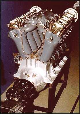 The Liberty V eight-cylinder engine which preceded the Liberty-12. It was the first Liberty engine tested in an aircraft, on August 29, 1917.